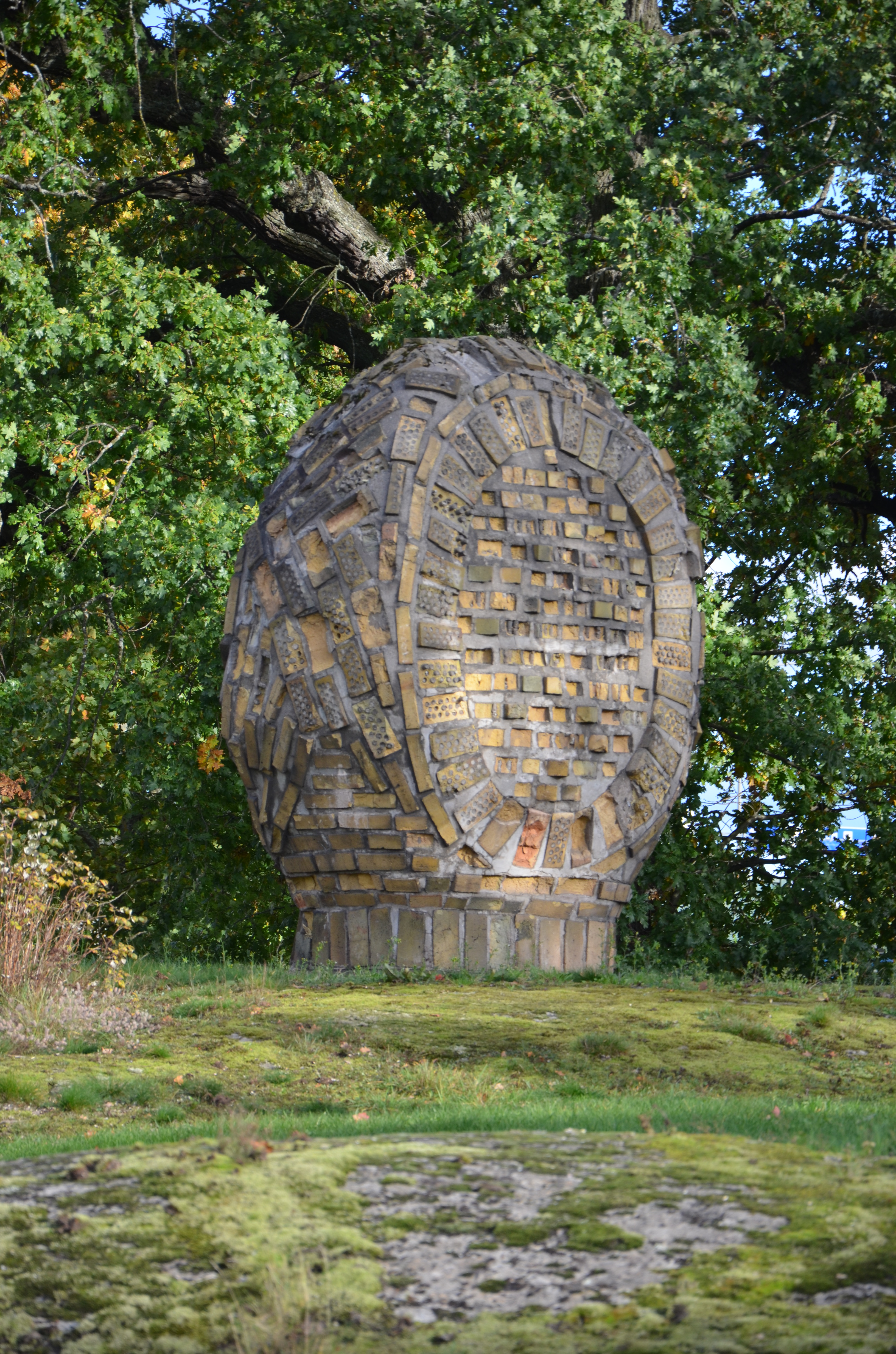 Scukpture Tegelrosen by Ulf Sucksdorff, Skärholmen, Stockholm